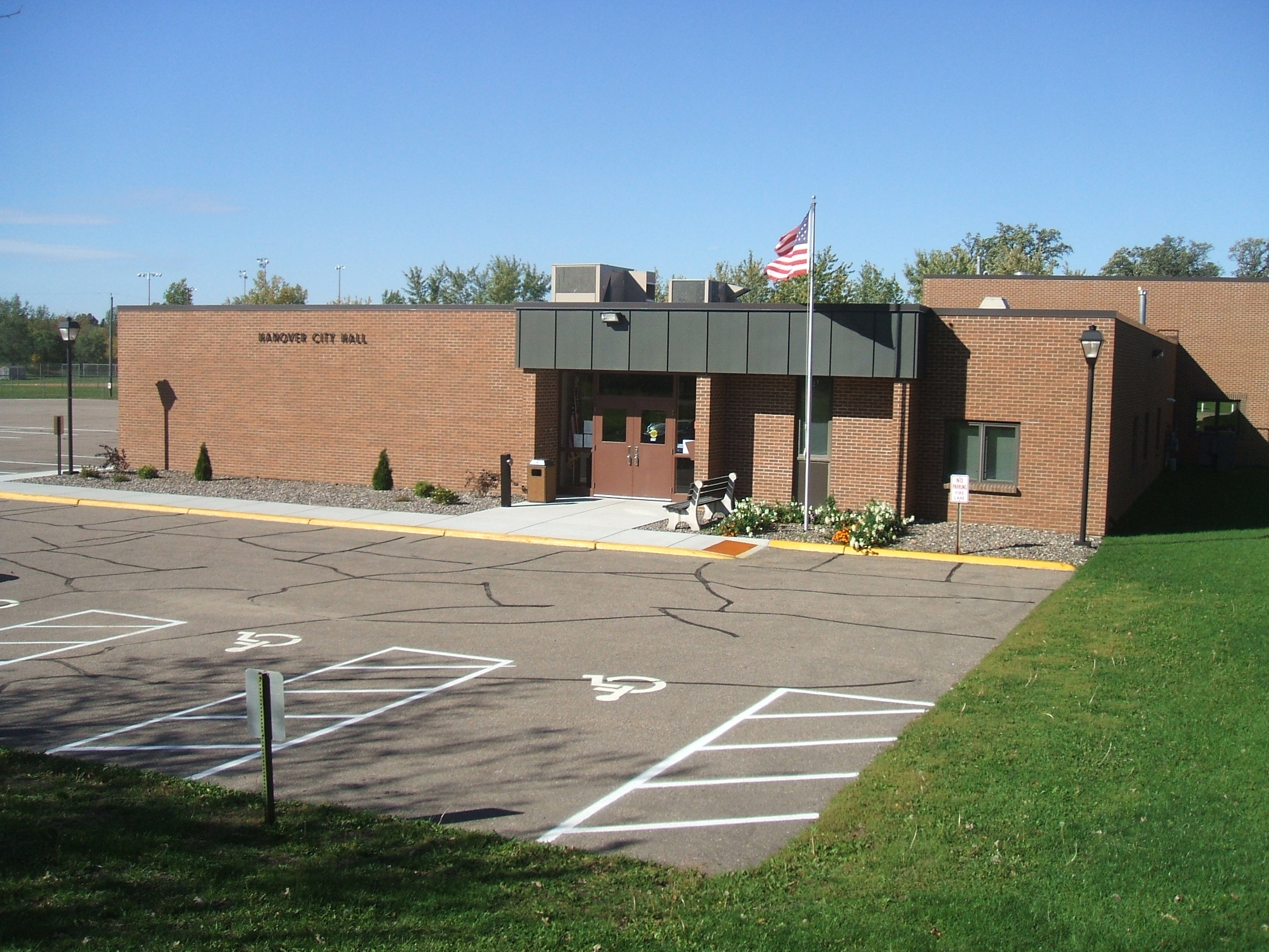 Shot of the City Hall of Hanover.